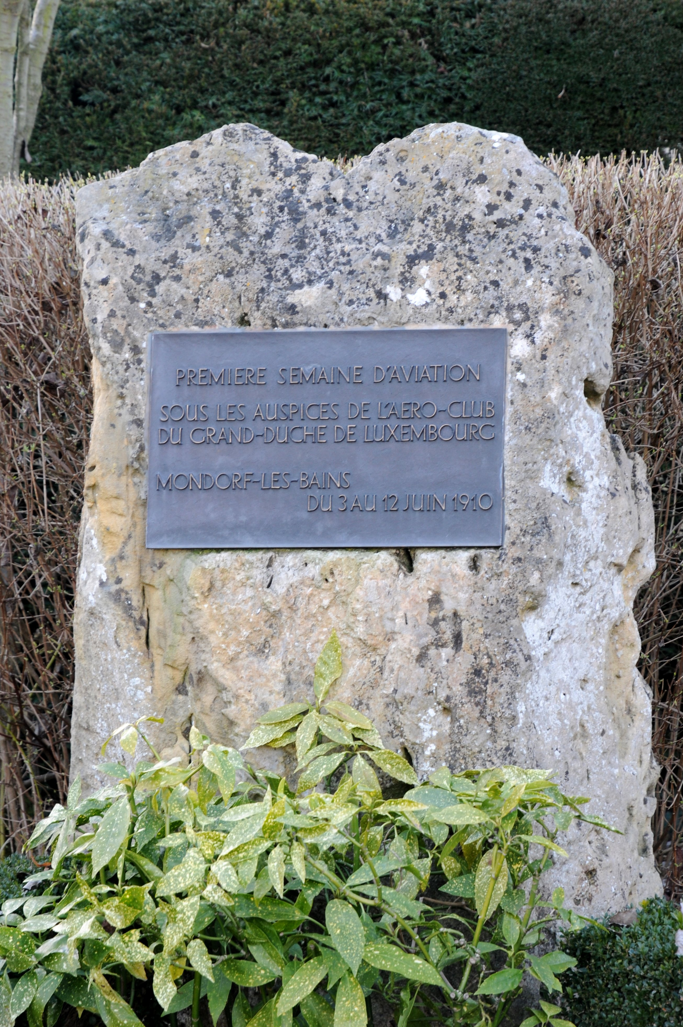 "First aviation week" memorial, 3-12 June 1910, in Mondorf-les Bains.